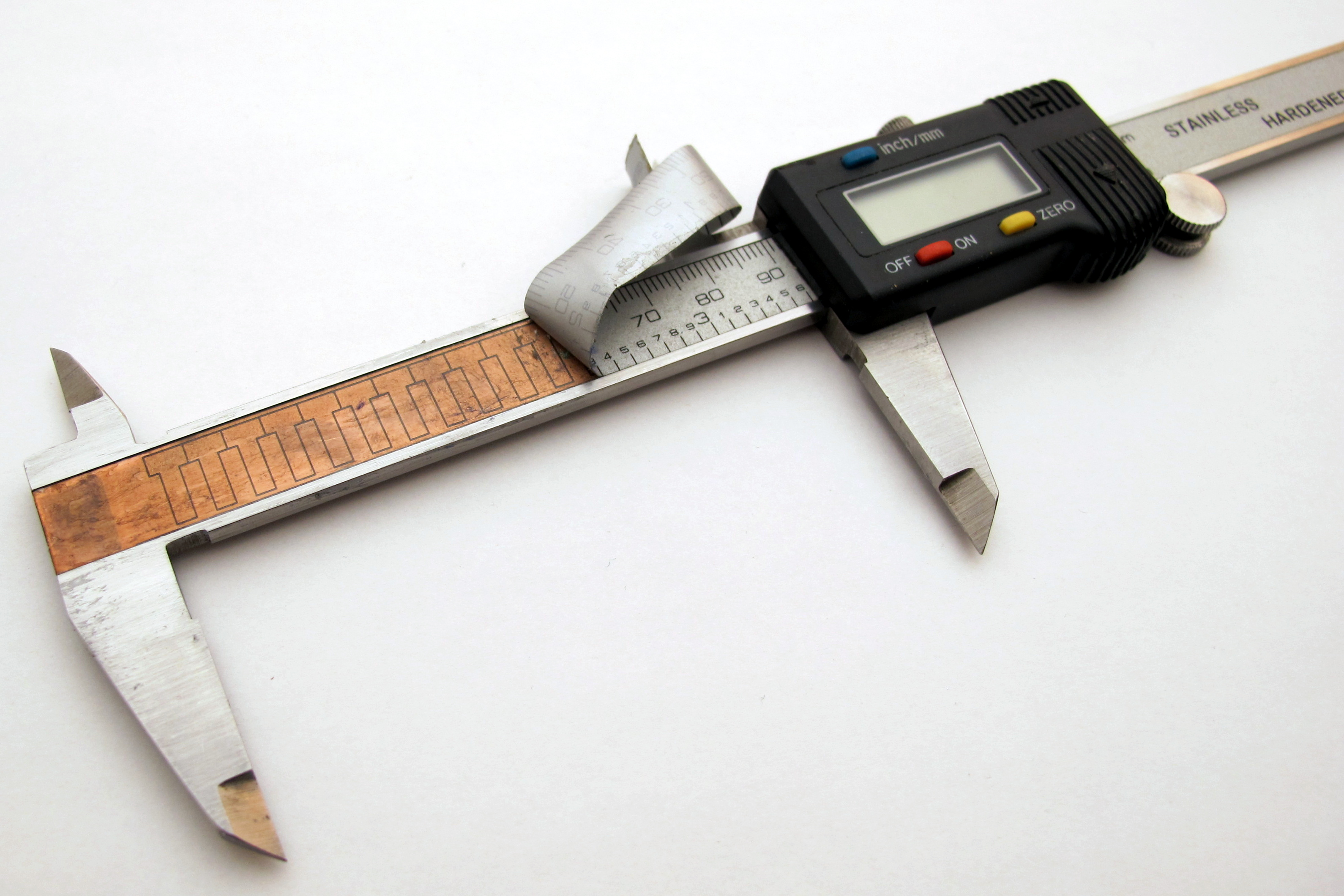 Digital caliper with partially removed scale revealed capacitive linear encoder pads on the stator.